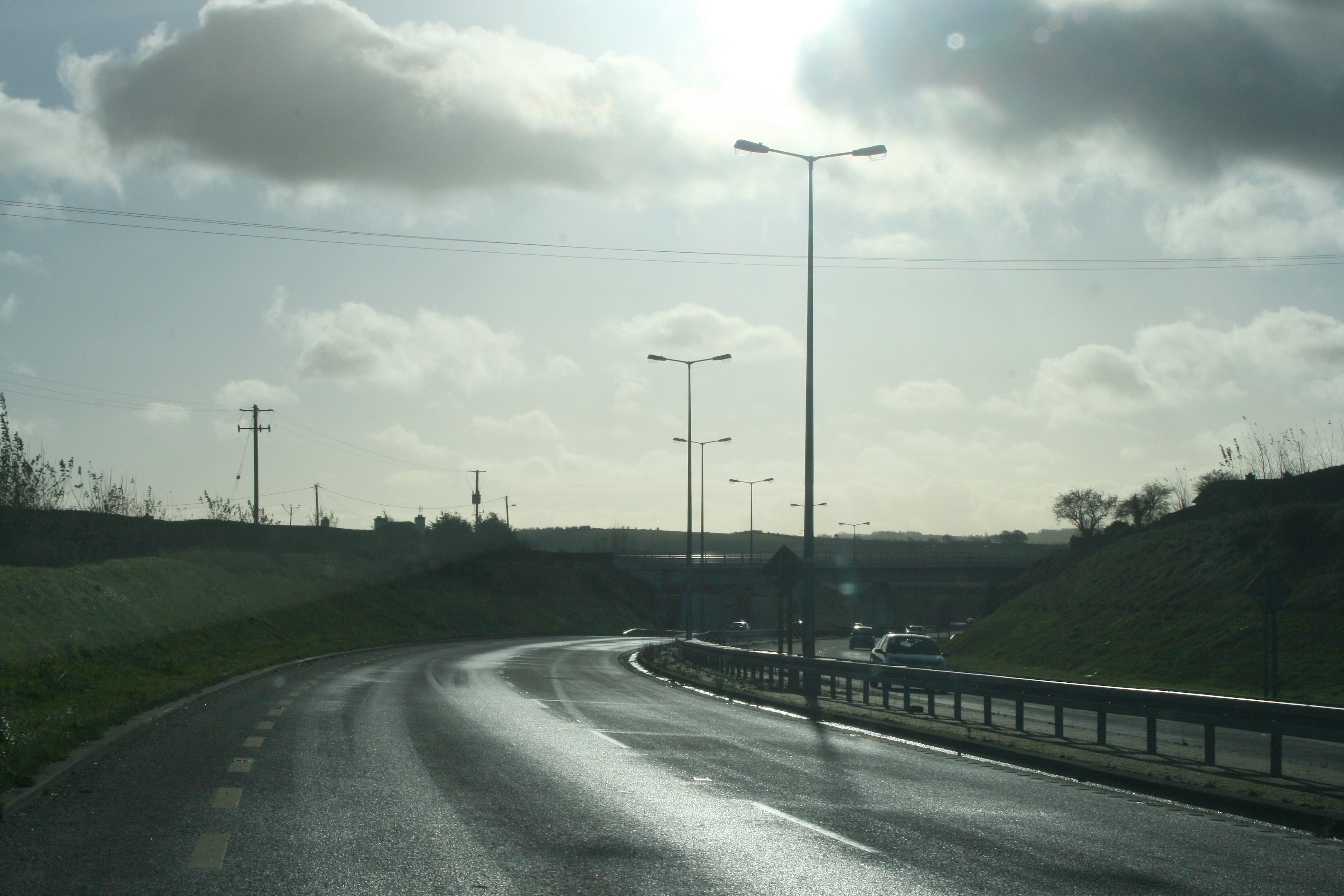 N22 road near Ballincollig approaching the Cork Southern Ring from the north.